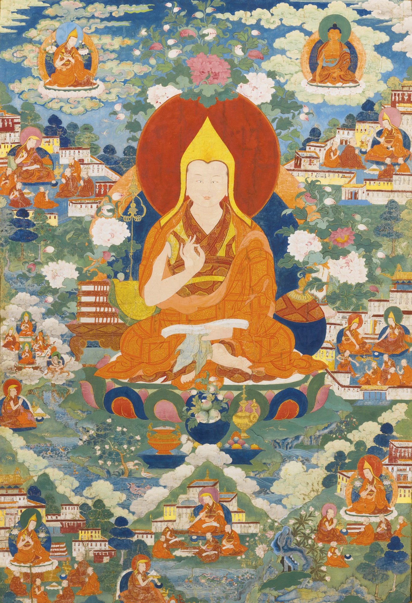 The painting depicts Khedrub Geleg Pal Zangpo (1385-1438), a close disciple of Tsong Khapa. It is part of a larger set of Lamrim Lineage paintings in the Geluk tradition. The total number of paintings in the set is unknown, but it possibly exceeds over fifty. The set was likely commissioned in the last half of the 18th century or the first half of the 19th century.